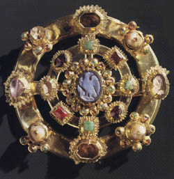 Description: Medieval clasp Location: Środa Śląska (Środa treasure) Source: Photographed on 16.06.2007. Photographer: Tlumaczek